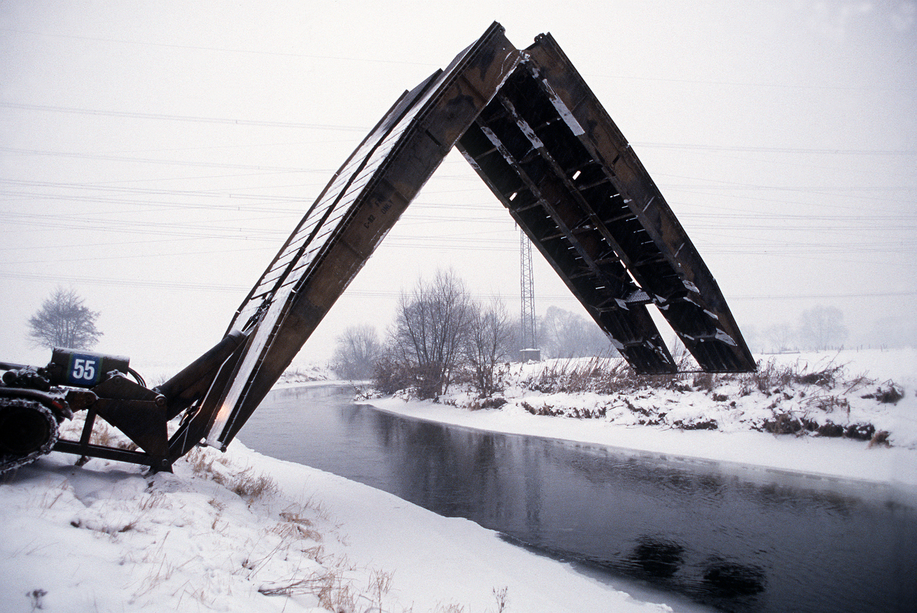 An M-60 armored vehicle launched bridge is deployed across the Lahn River during Central Guardian, a phase of exercise Reforger '85. Location: Lahn River near Bellnhausen (Fronhausen), Hesse, Germany.